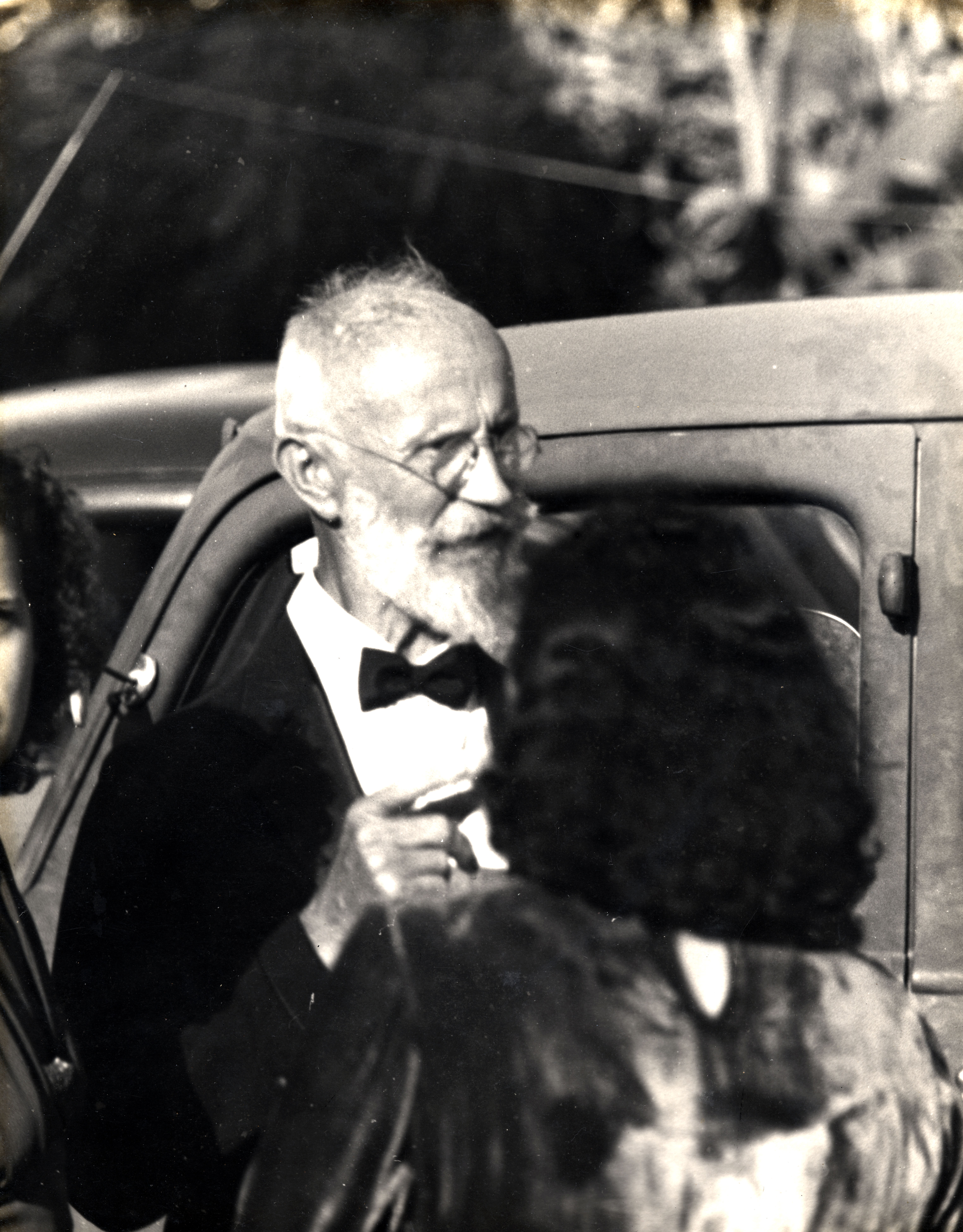 Von Cosel (Carl Tanzler) in 1940. Photo by Stetson Kennedy.